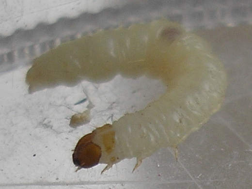 Indian Meal Moth (Plodia interpunctella) - larva. Location: Ballans, 17160 (Charente-Maritime) FranceKeywords: pest, food, chocolate